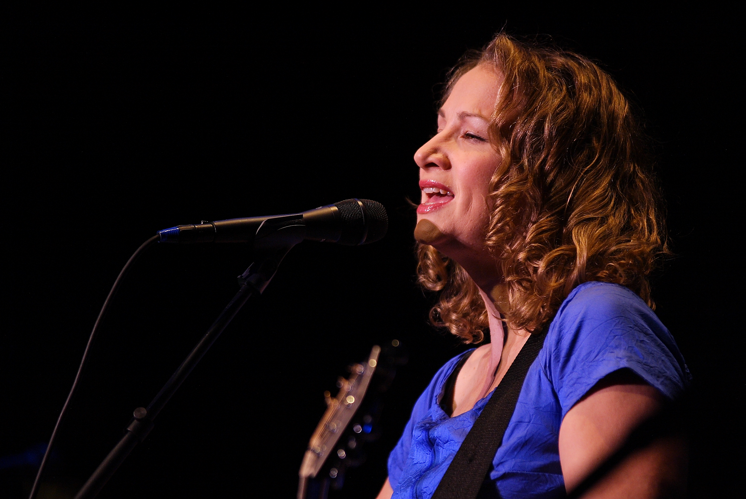 Joan Osborne performed at The Grand tonight with Paul Thorn and The Holmes Brothers in Wilmington, Delaware.